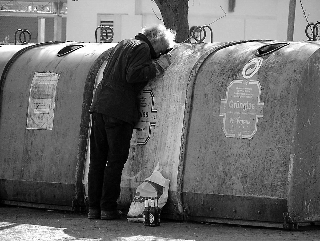 urban life